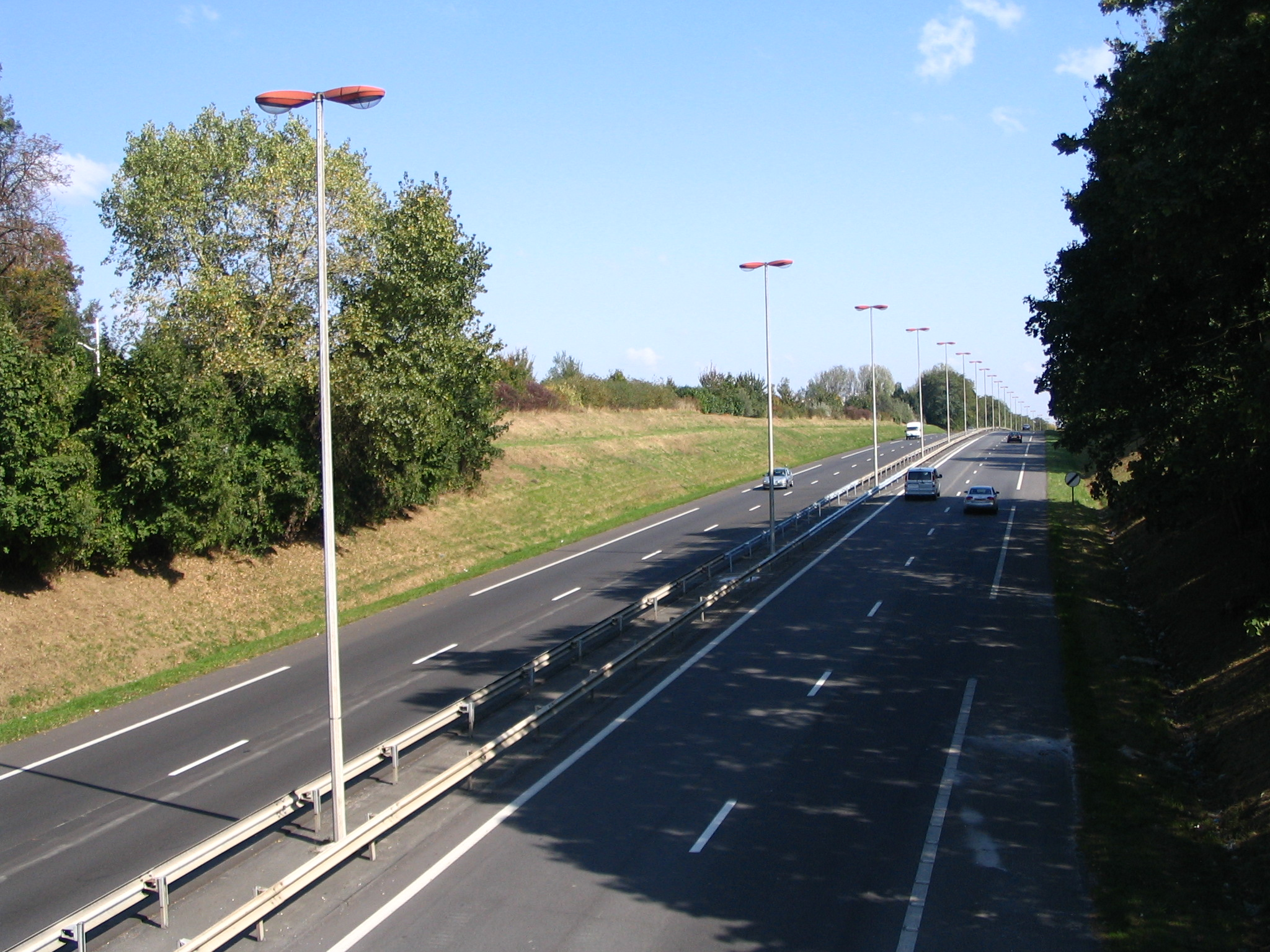 Highway A199 in Champs-sur-Marne, Seine-et-Marne, France.